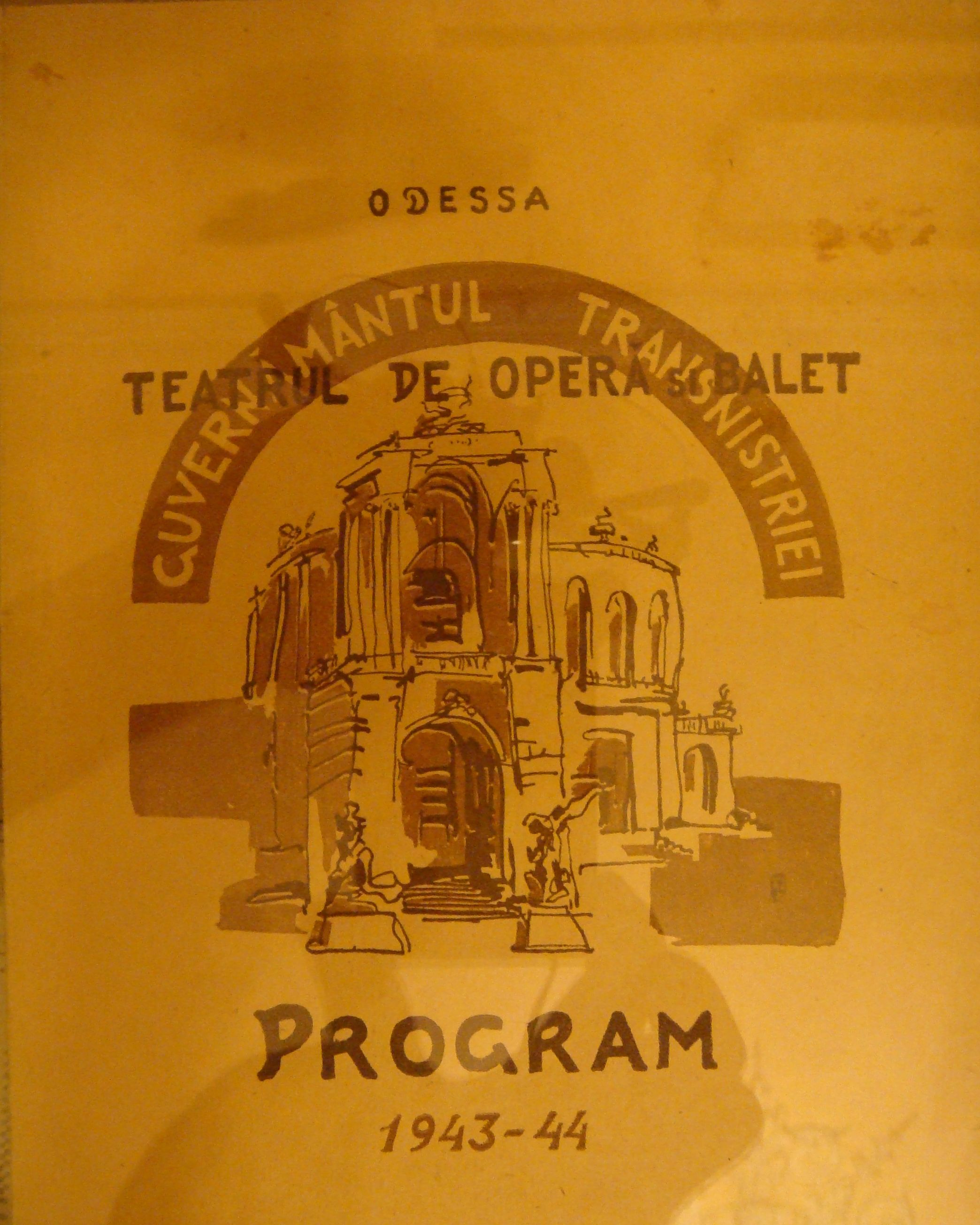 Frontpage of the Odessa Opera Theater program of 1943-1944. Nazy occupation of Odessa (District Transnistria). Historic memorabilia exhibited in Odessa Museum of Local History